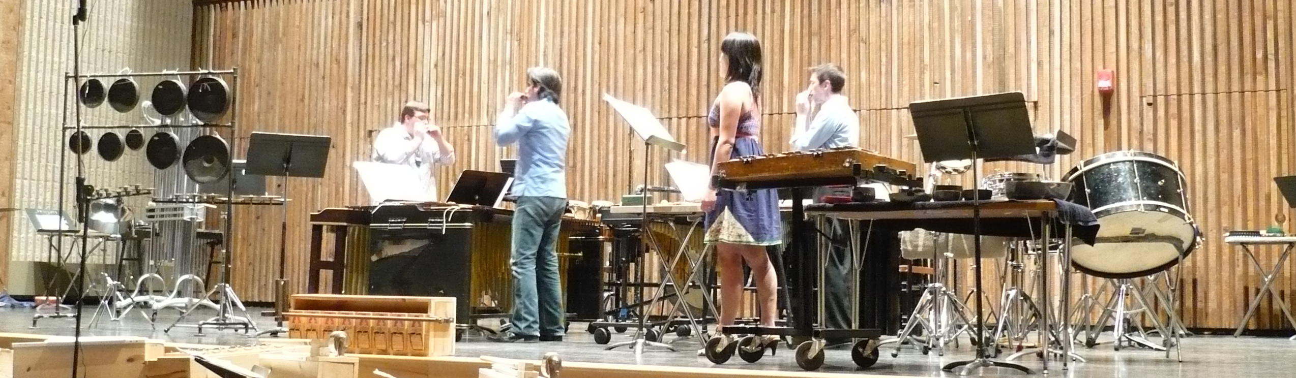 A performance of Síppal, dobbal, nádihegedüvel, a song cycle by György Ligeti, by the Akros Percussion Collective with Nina Eidsheim, soprano. In this section of the piece the percussionists play chromatic harmonicas. Photo taken at a concert of the Akros Percussion Collective in Guzzetta Recital Hall, Guzzetta Hall, the University of Akron, in Akron, Ohio, United States, for the Kulas Concert Series.